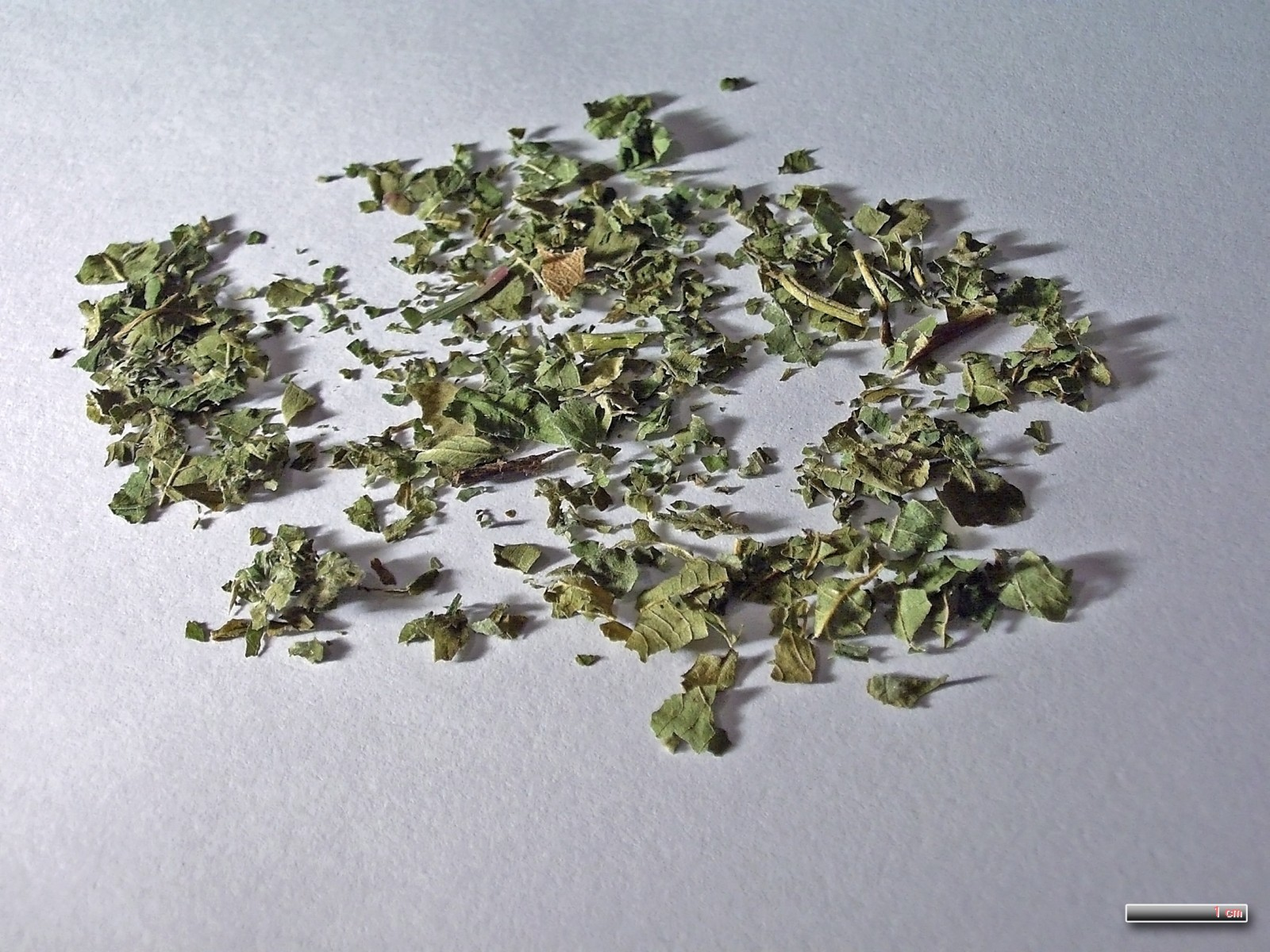 dried blackberry, Rubus fruticosus Leaves